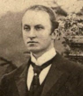 Cropped image of Lord Curzon, from Li_Hung_Chang,_Lord_Salisbury,_Lord_Curzon.jpg